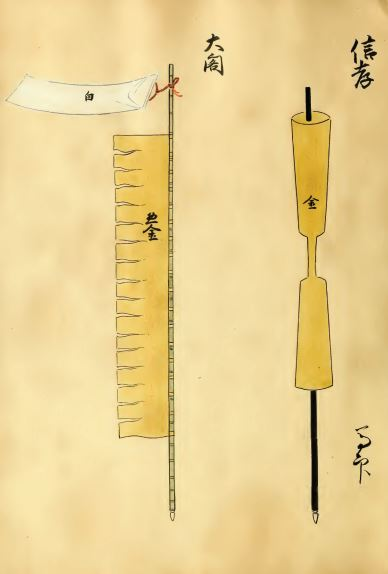 Battle Standard (gold mallet); Banner (gold kirisake, or half-cut cloth curtain, with white maneki, or pendant)